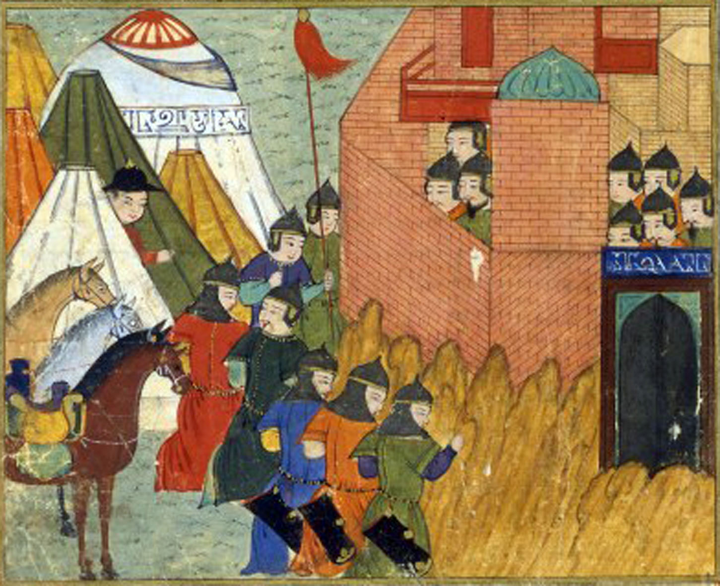 Mongol siege of Arbil (1258/1259).Jami' al-tawarikh, Rashid al-Din.